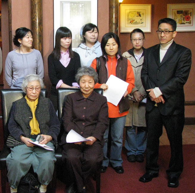 Korean Americans (cropped from the original)